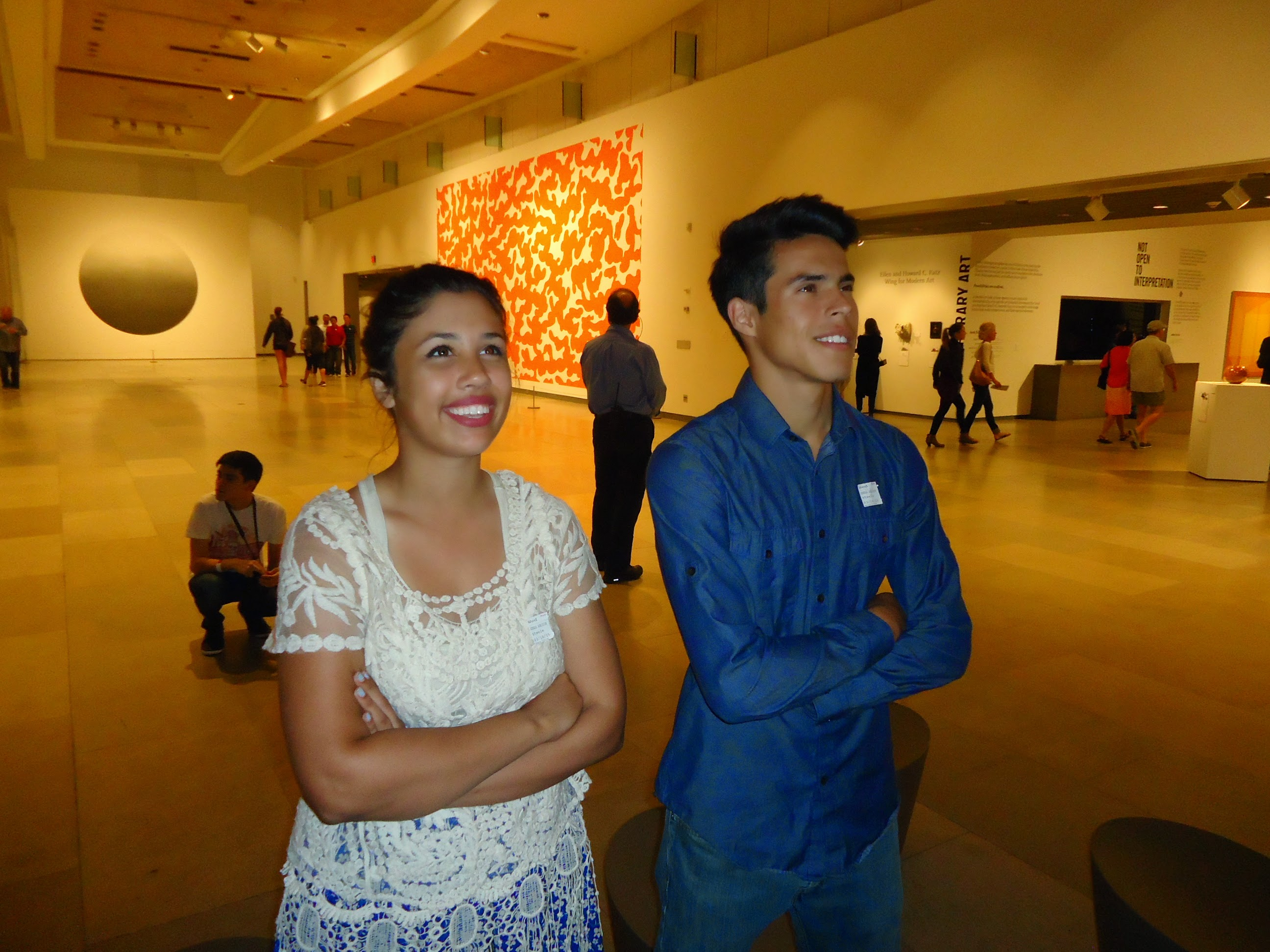 Young couple looking at art at the Phoenix Art Museum.